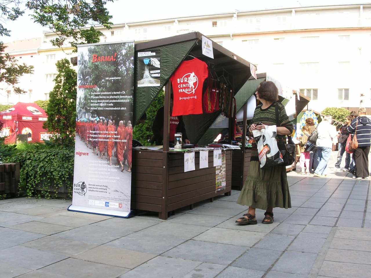 Stall of the NGO Burma Center Prague on the festival Barevná planeta in Ústí nad Labem, Czech Republic